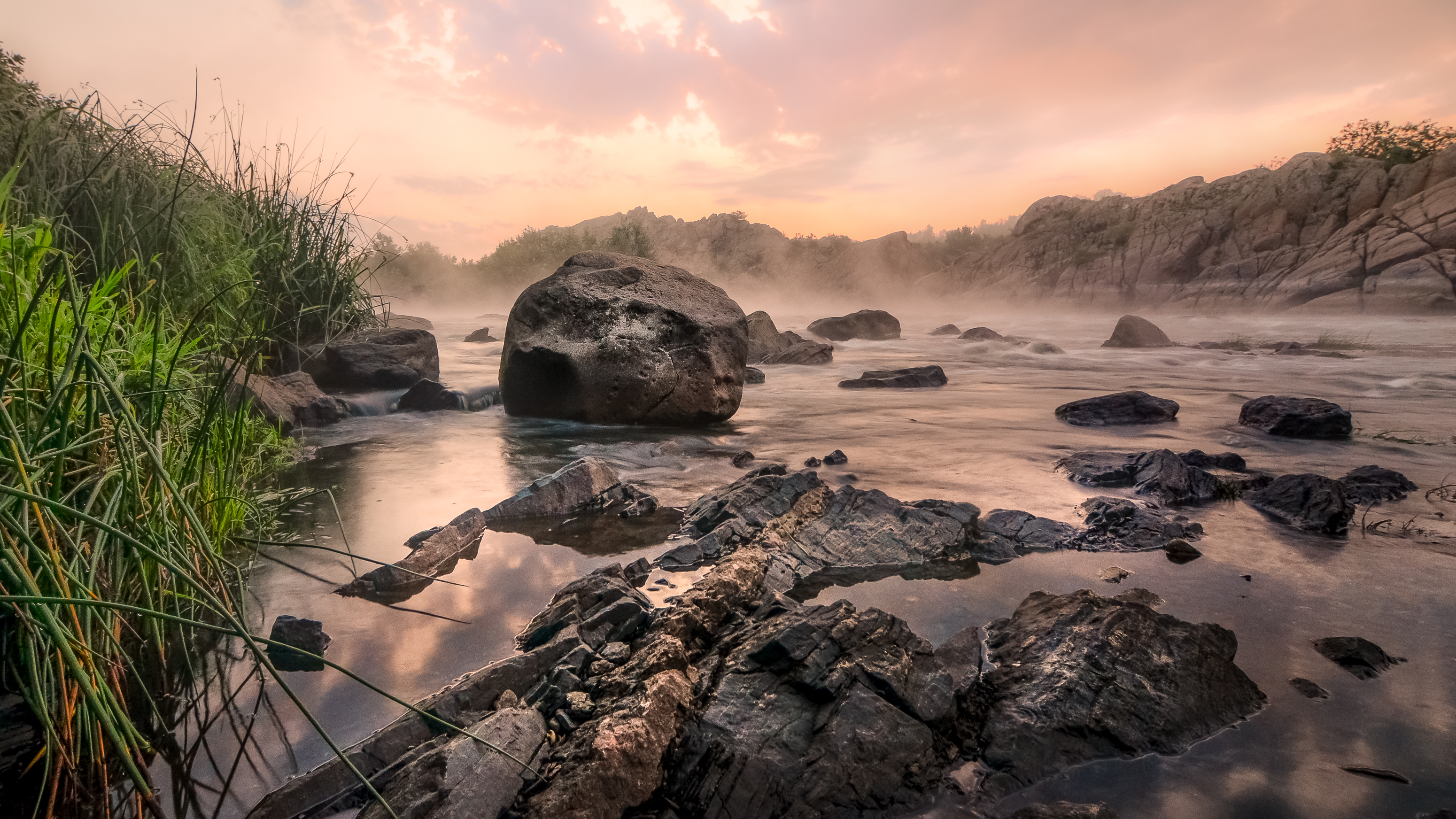 Buzkiy Gard, Mykolaiv Oblast, Ukraine